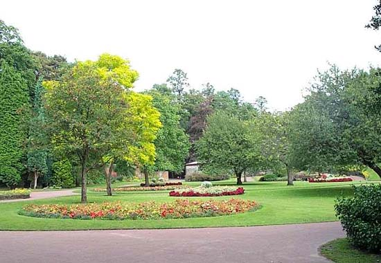 Manor Park Glossop - rose garden - Google Maps - Google Earth